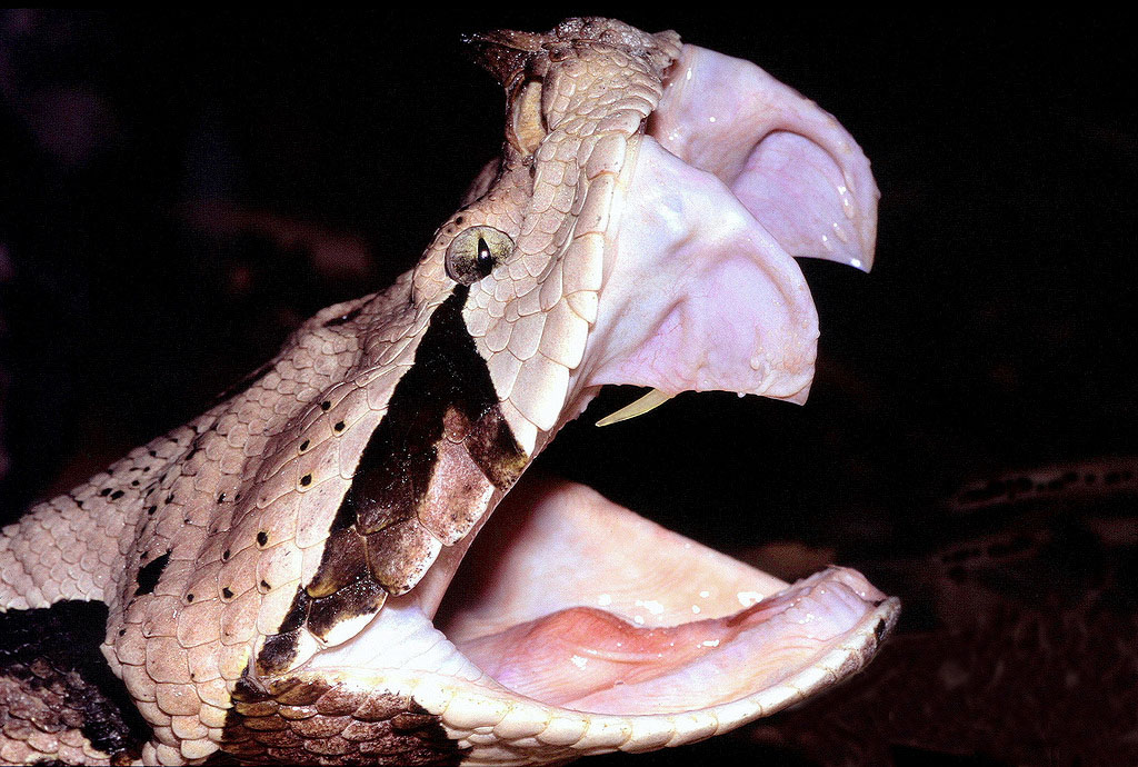 A Gaboon viper (Bitis gabonica) showing its fangs, the largest of any snake. Photo taken at Chester Zoo, England.